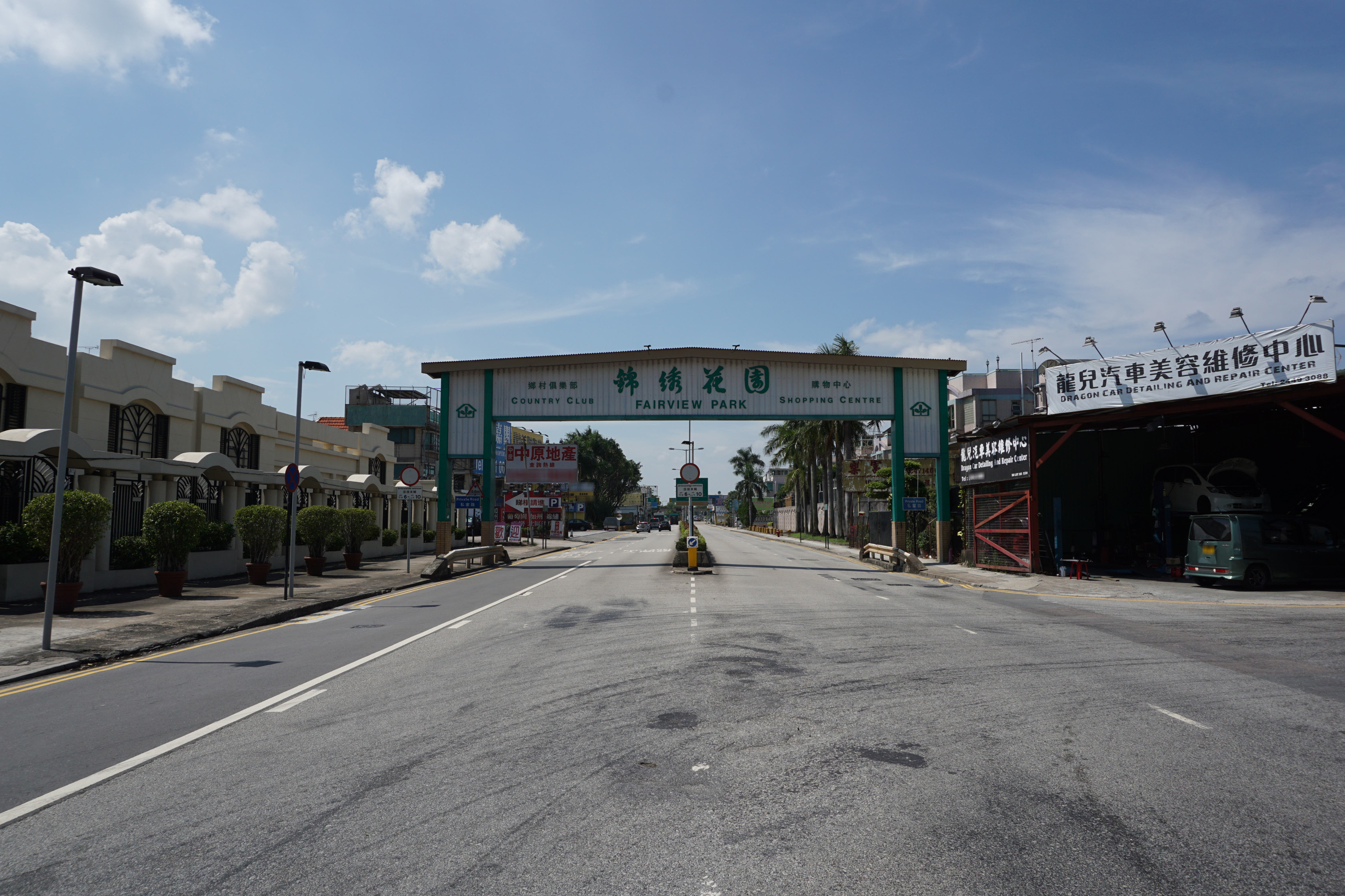 Fairview Park Boulevard in Tai Sang Wai, Hong Kong.